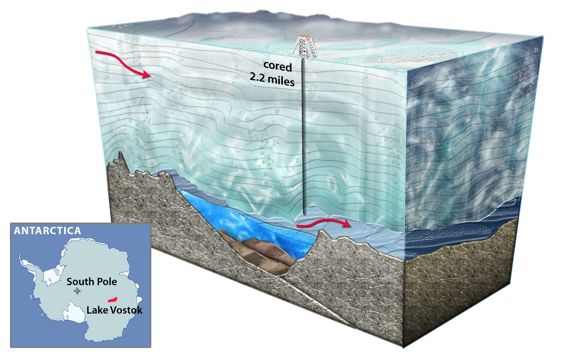 An artist's cross-section of Lake Vostok, the largest known subglacial lake in Antarctica. Liquid water is thought to take thousands of years to pass through the lake, which is the size of North America's Lake Ontario.